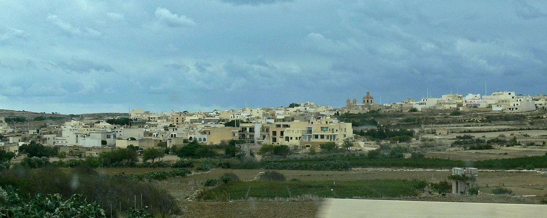 Panoramic view of Ta' Kerċem, Malta